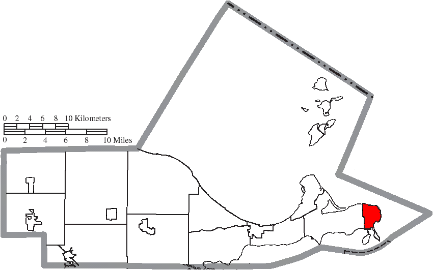 Map of the municipal and township boundaries of Ottawa County, Ohio, United States, as of the 2000 census, with the location of the village of Marblehead highlighted. Township borders are shown only in unincorporated areas in order to differentiate incorporated and unincorporated areas more clearly.